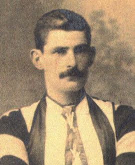 Photo of Lardie Tulloch from 1898-1904